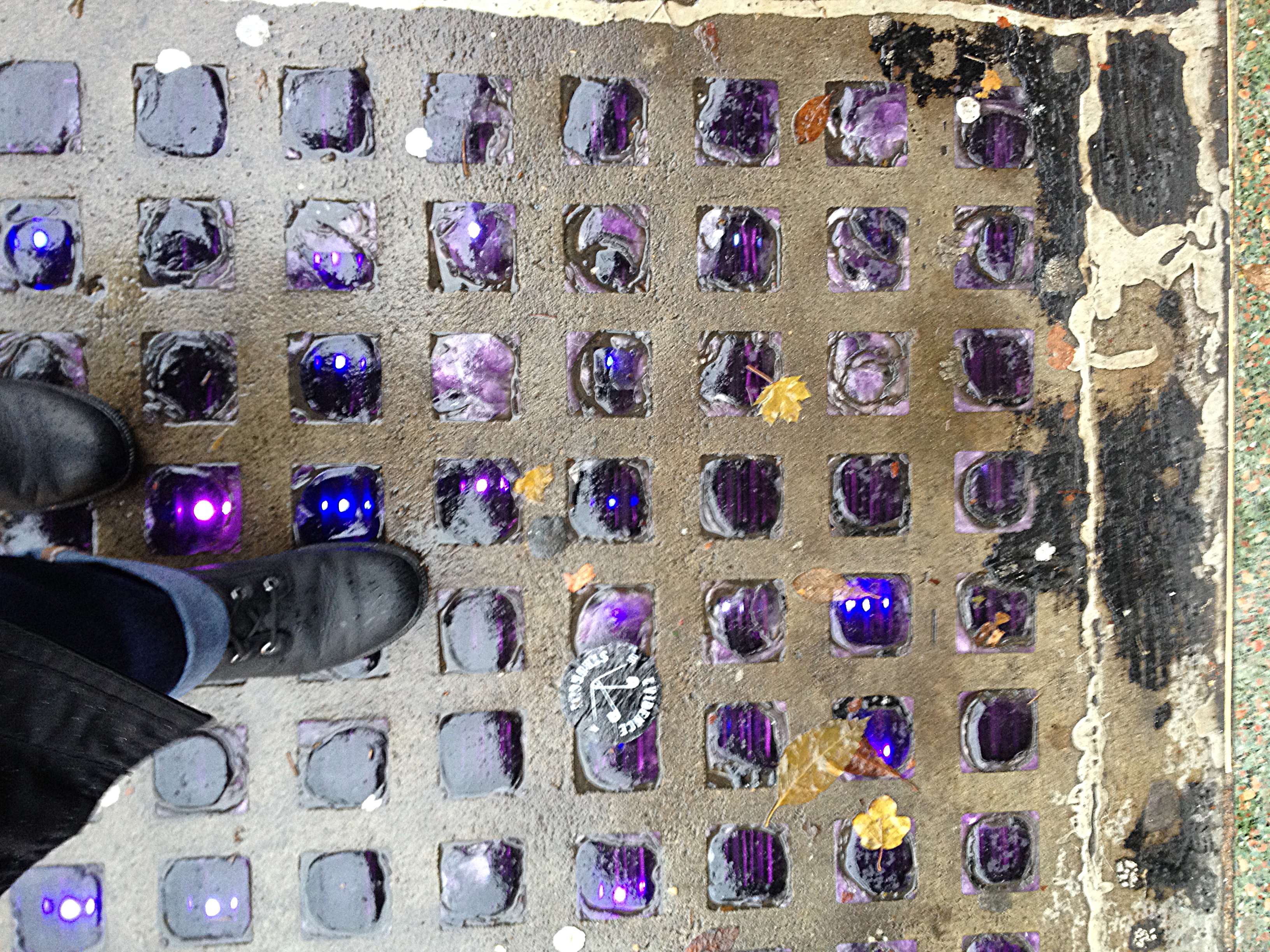 Sidewalk prism lights outside 440 West Pender Street, Vancouver, BC, from above, with lights shining up from inside the hollow sidewalk. View down onto a sidewalk with vault lights; a slab of concrete with a regular grid of inset squares of slightly domed purple glass. Within each square, faint vertical lines can be seen through the glass, and points of light shining up through the glass are duplicated in horizontal lines of three points of light. Some yellow leaves have fallen on the damp concrete.The purple shade has developed over a century of solarization. These are multi prisms; the ridges can be seen running vertically.